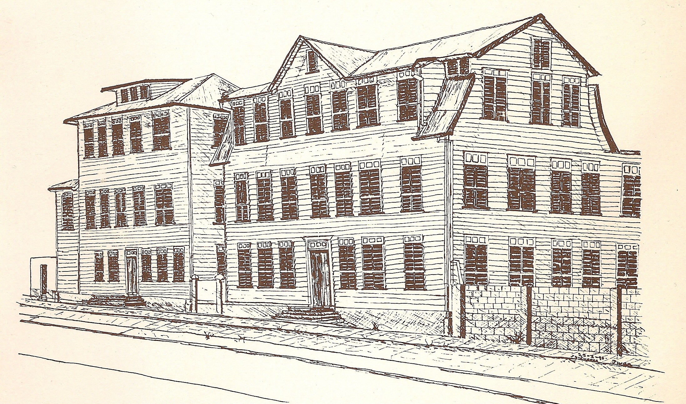 Inkt drawing of the buildings of the Kennedy Foundation in Paramaribo, Suriname. Taken from my own book Ik ben Nalini en ik ben een buitenbeentje.